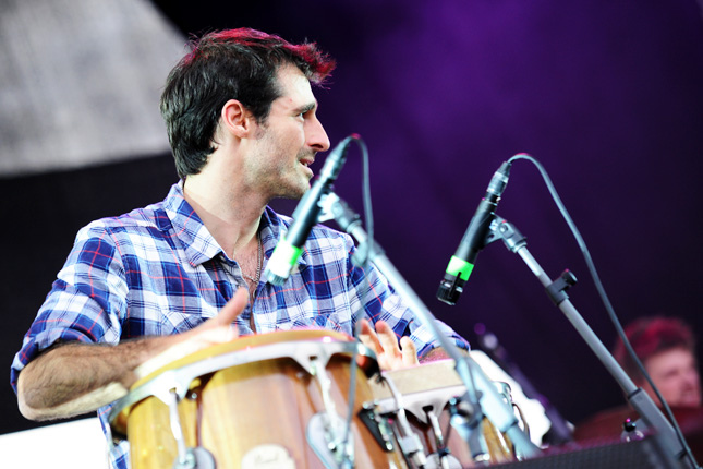 The Cat Empire, bongos, at the West Coast Blues N Roots Festival, 17 April 2001